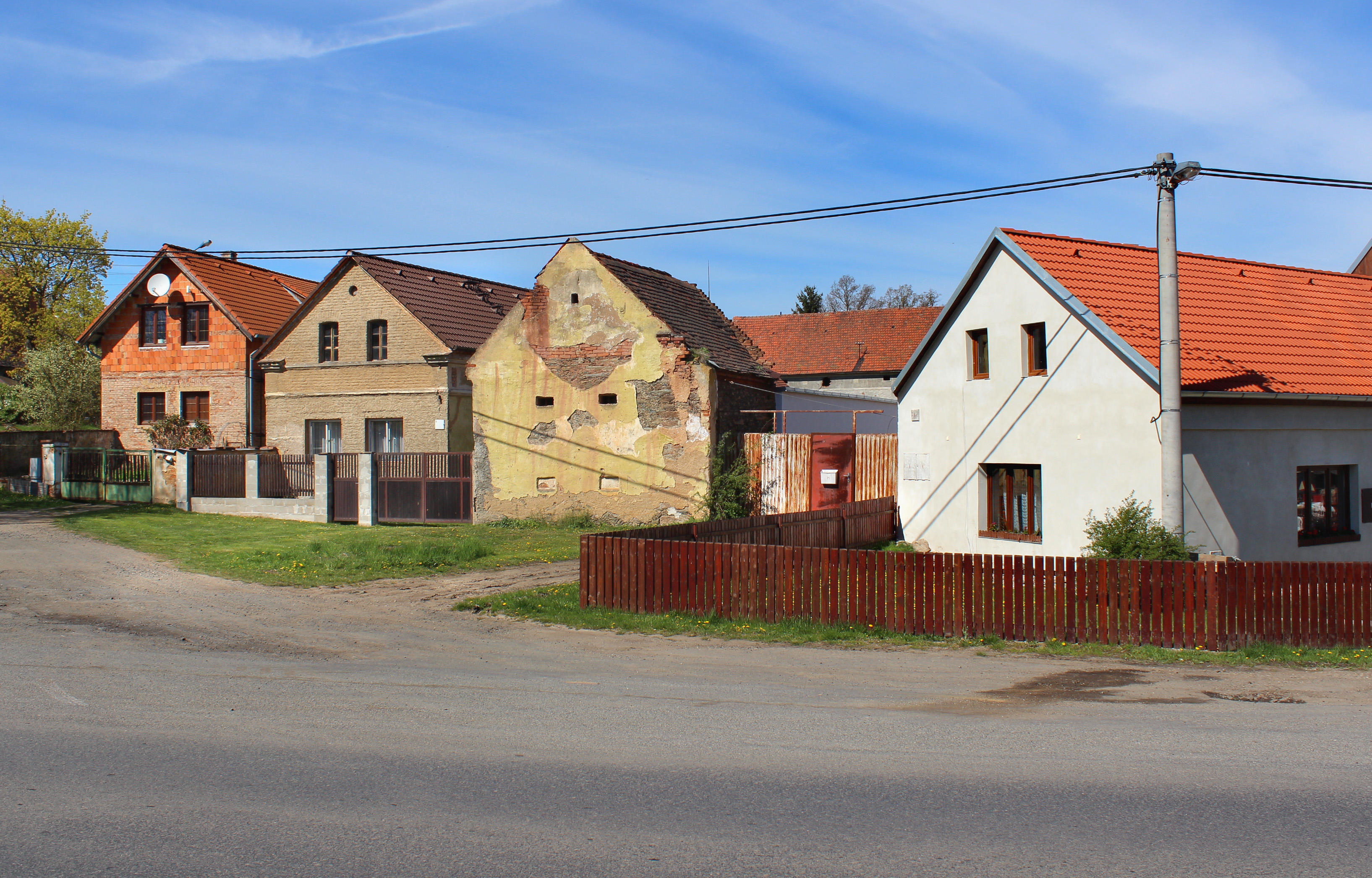 Common in Těchlovice, part of Stříbro, Czech Republic